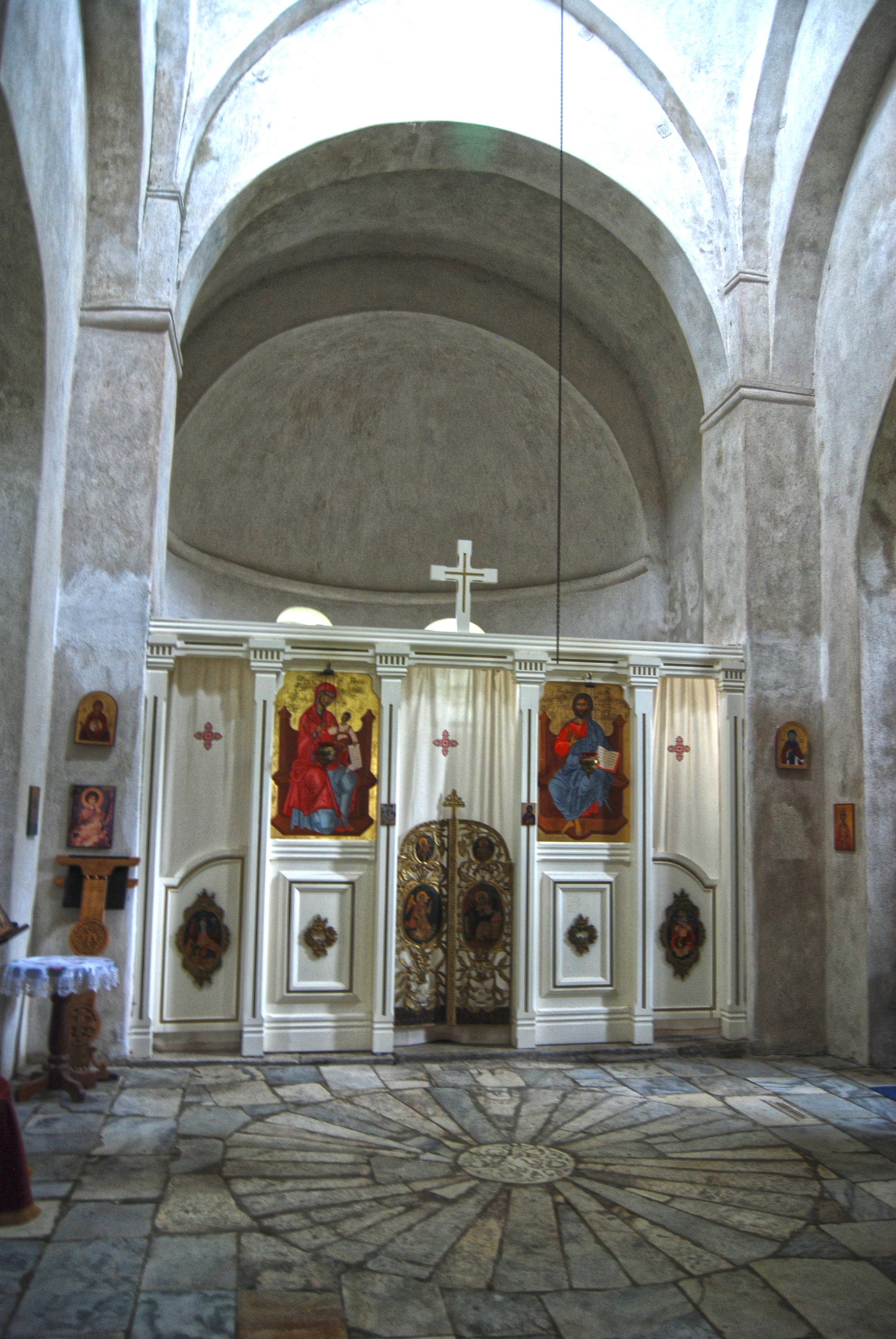 Pridvorica Monastery located in the vicinity of Ivanjica, in Pridvorica, SerbiaСрпски (ћирилица): Манастир Придворица налази се уу околини Ивањице, у месту Придворица, Србија.